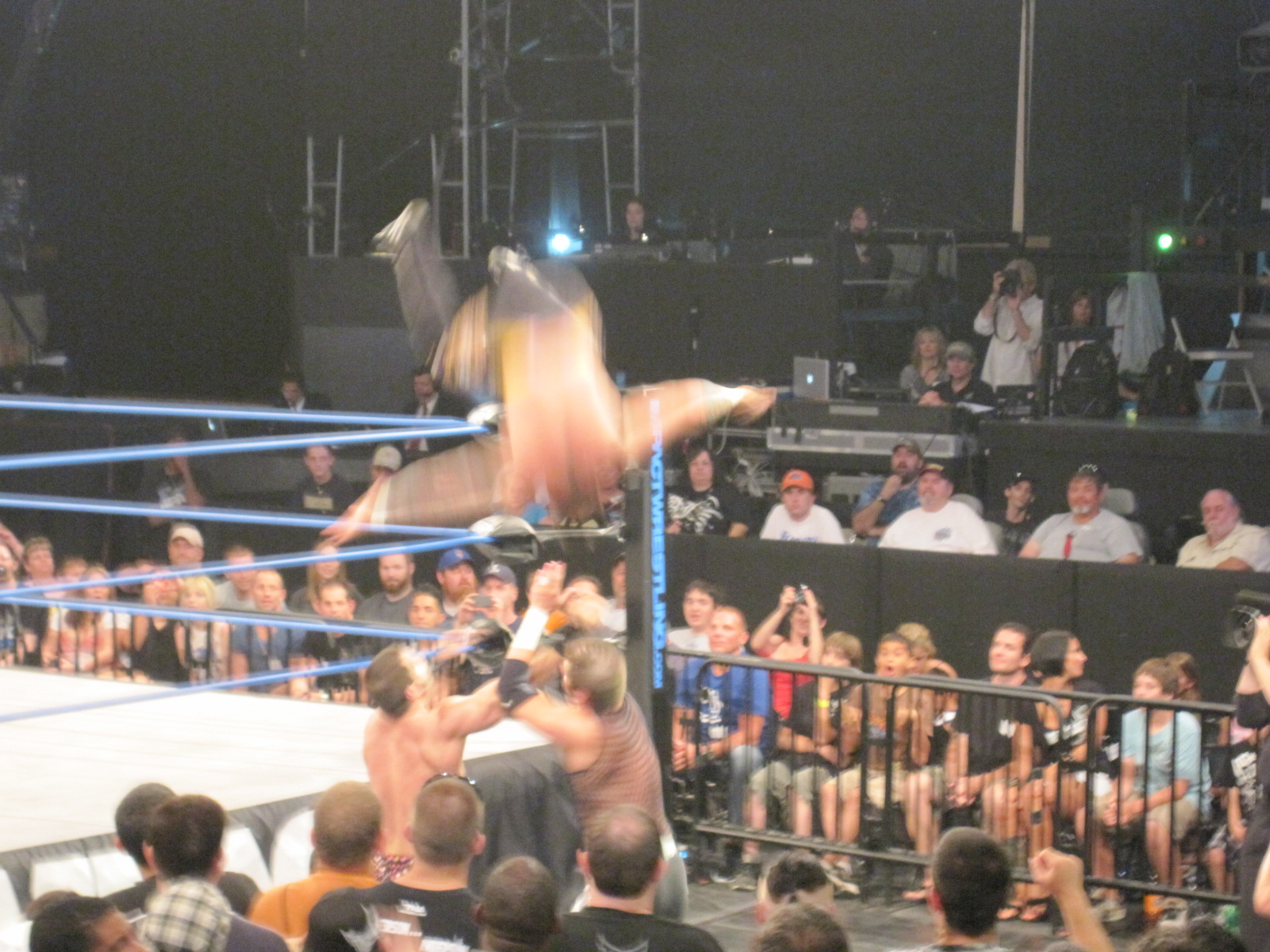 Impact Wrestling Taping. Monday, June 13, 2011 to air Thursday, June 16, 2011